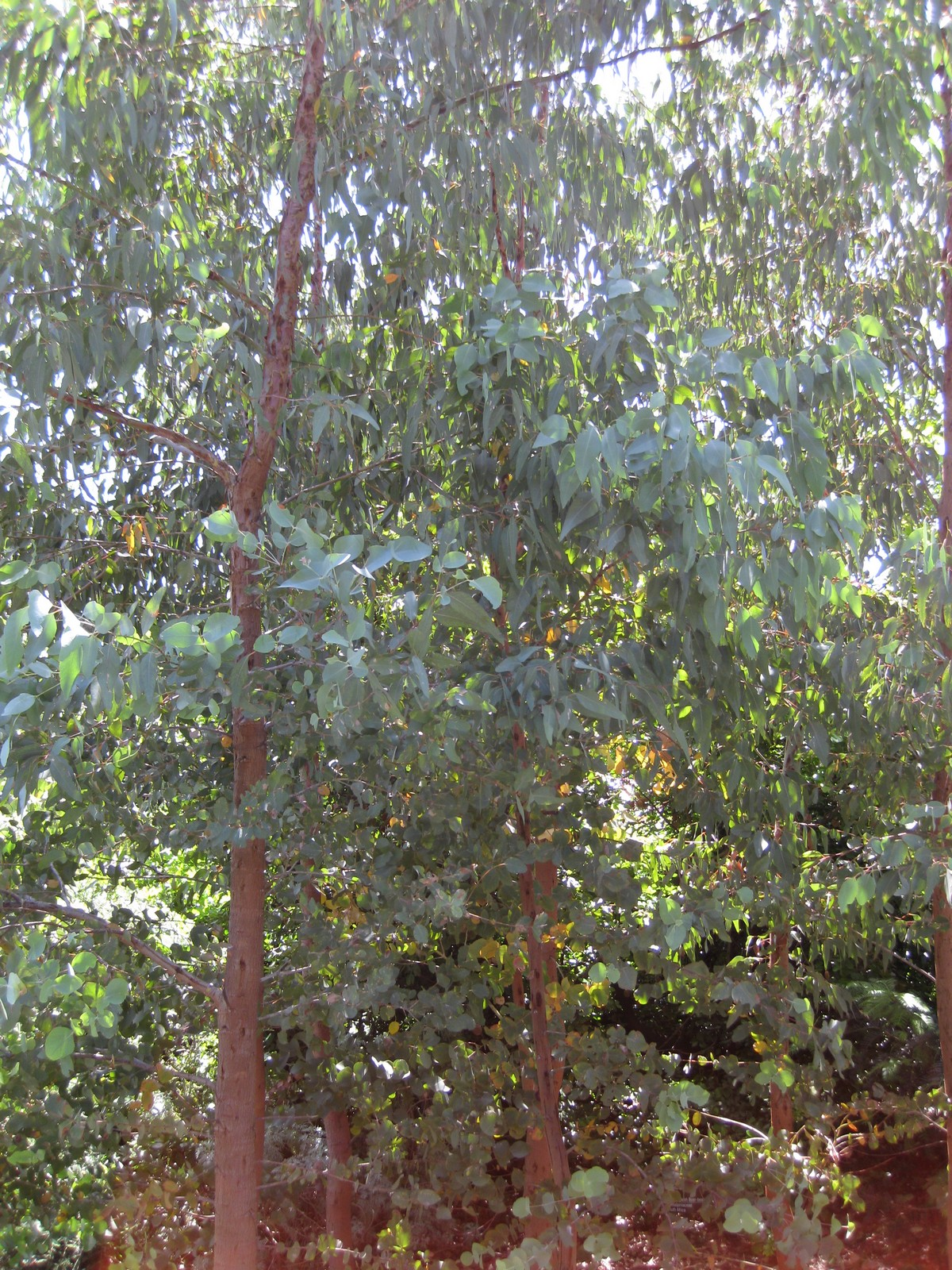 Photographed at the Royal Botanic Gardens Melbourne (Australia) in December